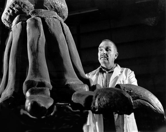 Image of James A. Jensen in his preparation lab at BYU, standing by forefoot of ultrasaurus. Dr. Jensen did not copyright his images, which he gave to me, his elder son, in his will. He died in 1998 at which point I received all of his images and paleo materials. I have not added copyright so this image does not have and has never had a copyright. Doctorjrj 05:40, 25 February 2007 (UTC)